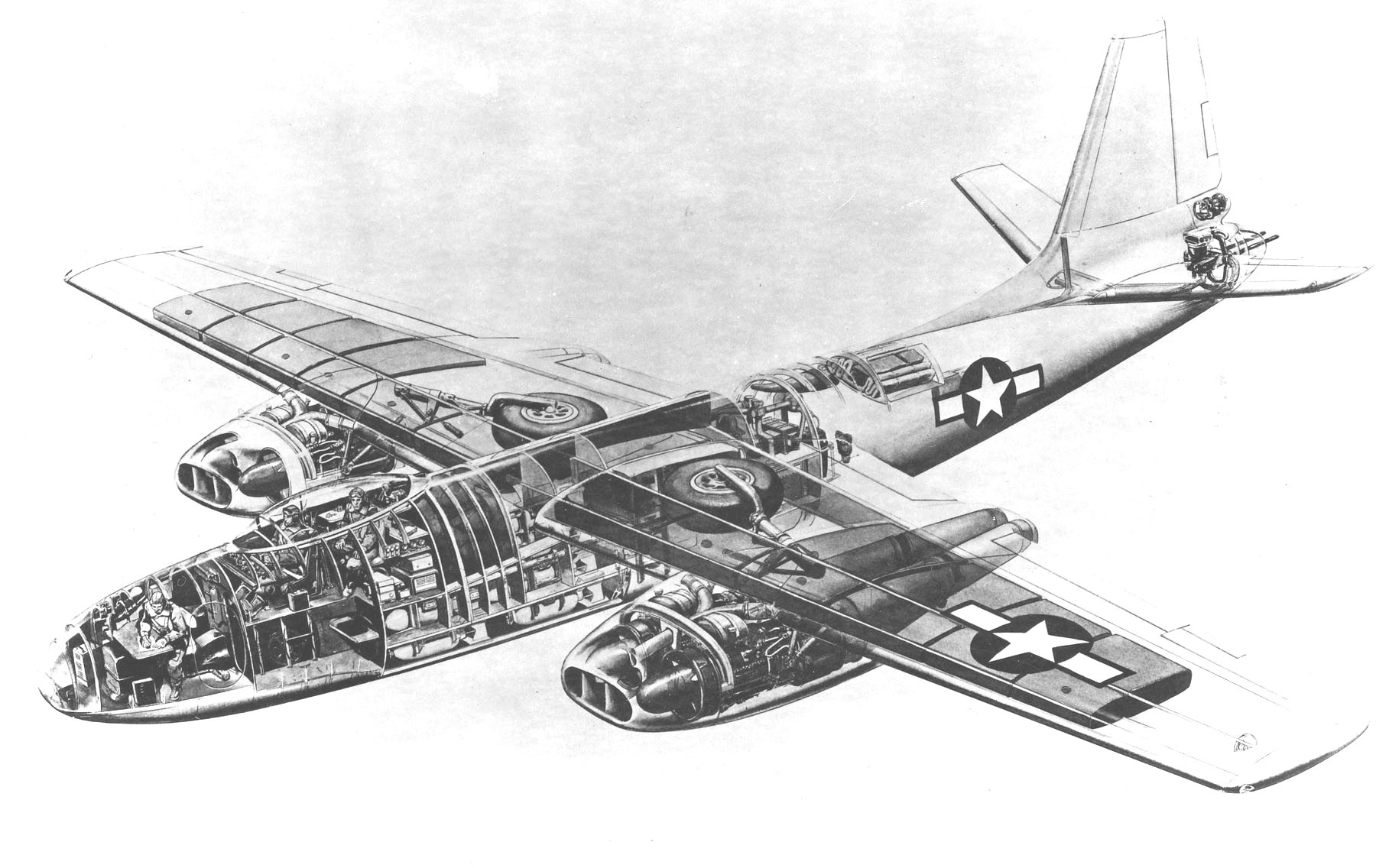 North American XB-45 cutaway drawing